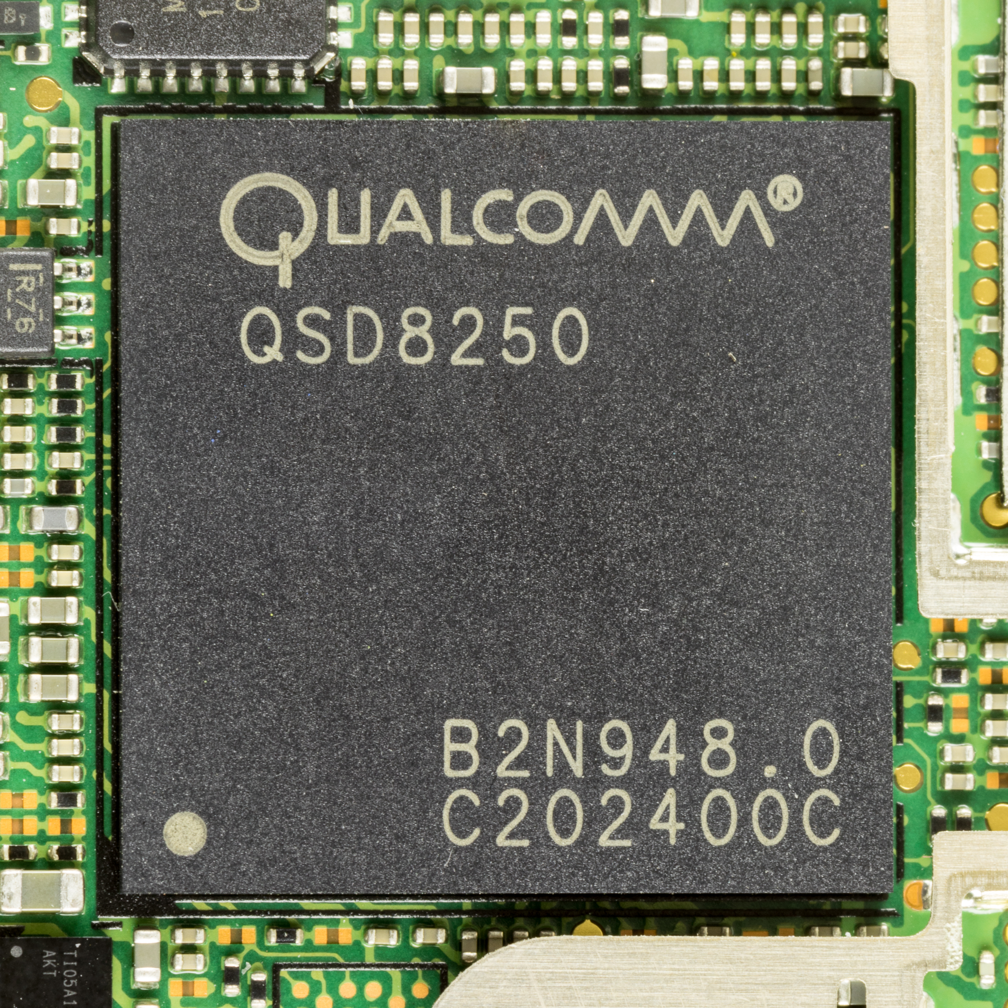 HTC Desire - main board - Qualcomm QSD8250 - Snapdragon CPU 1GHz Scorpion